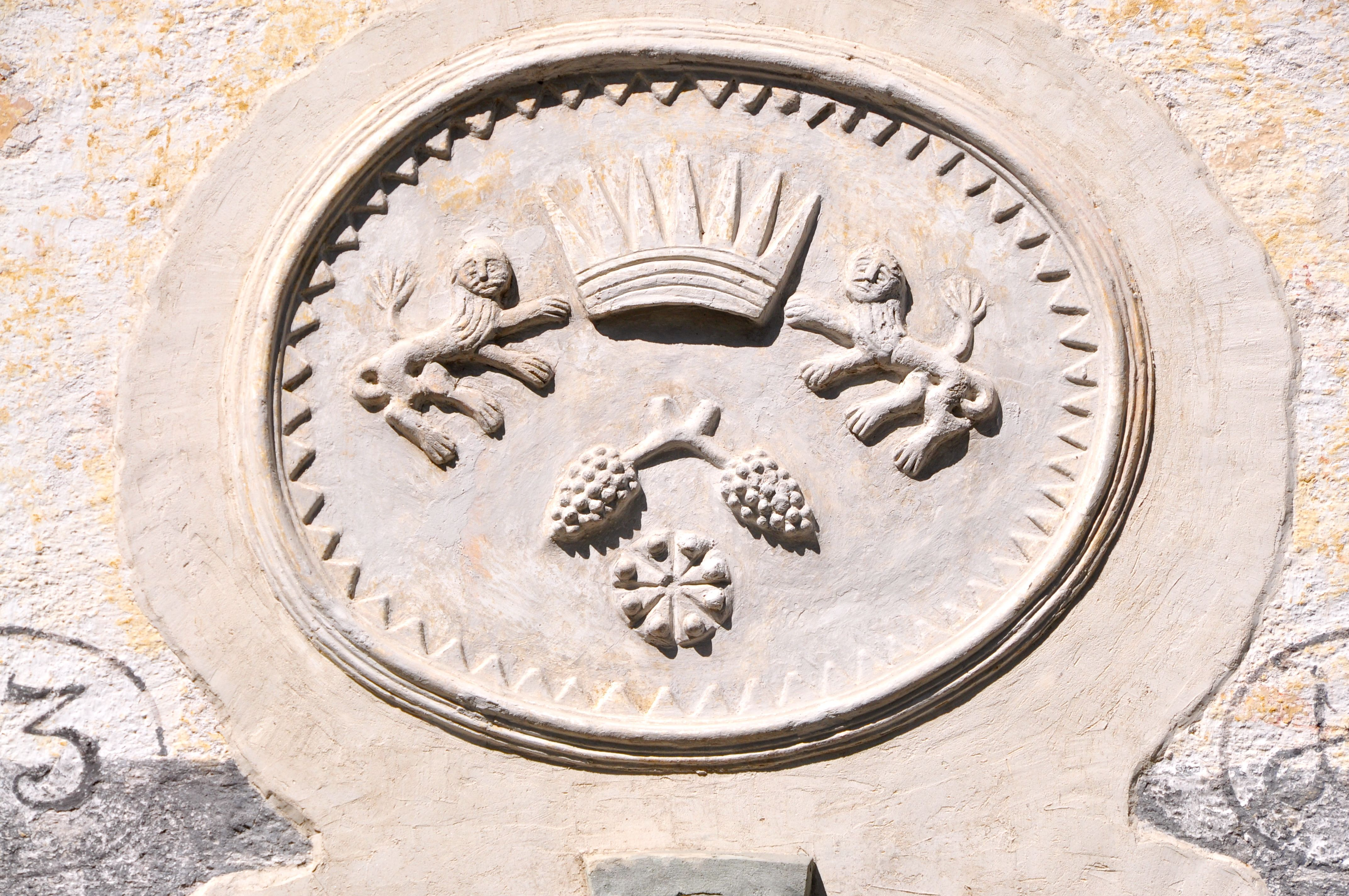 Relief stone above the portal of the house #20 in Podkoren, municipality Kranjska Gora, Upper Carniola, Slovenia, EU